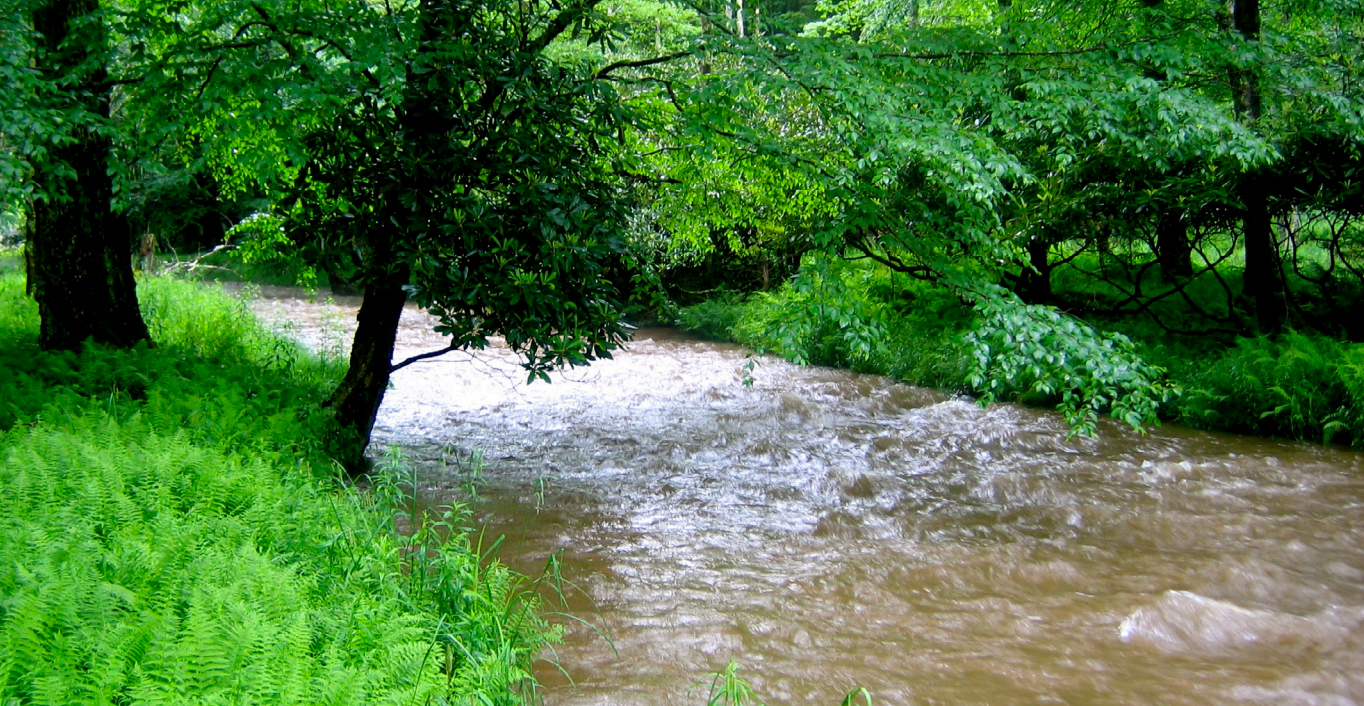 Laurel Fork in Highland County, Virginia. Approaching bankfull stage.